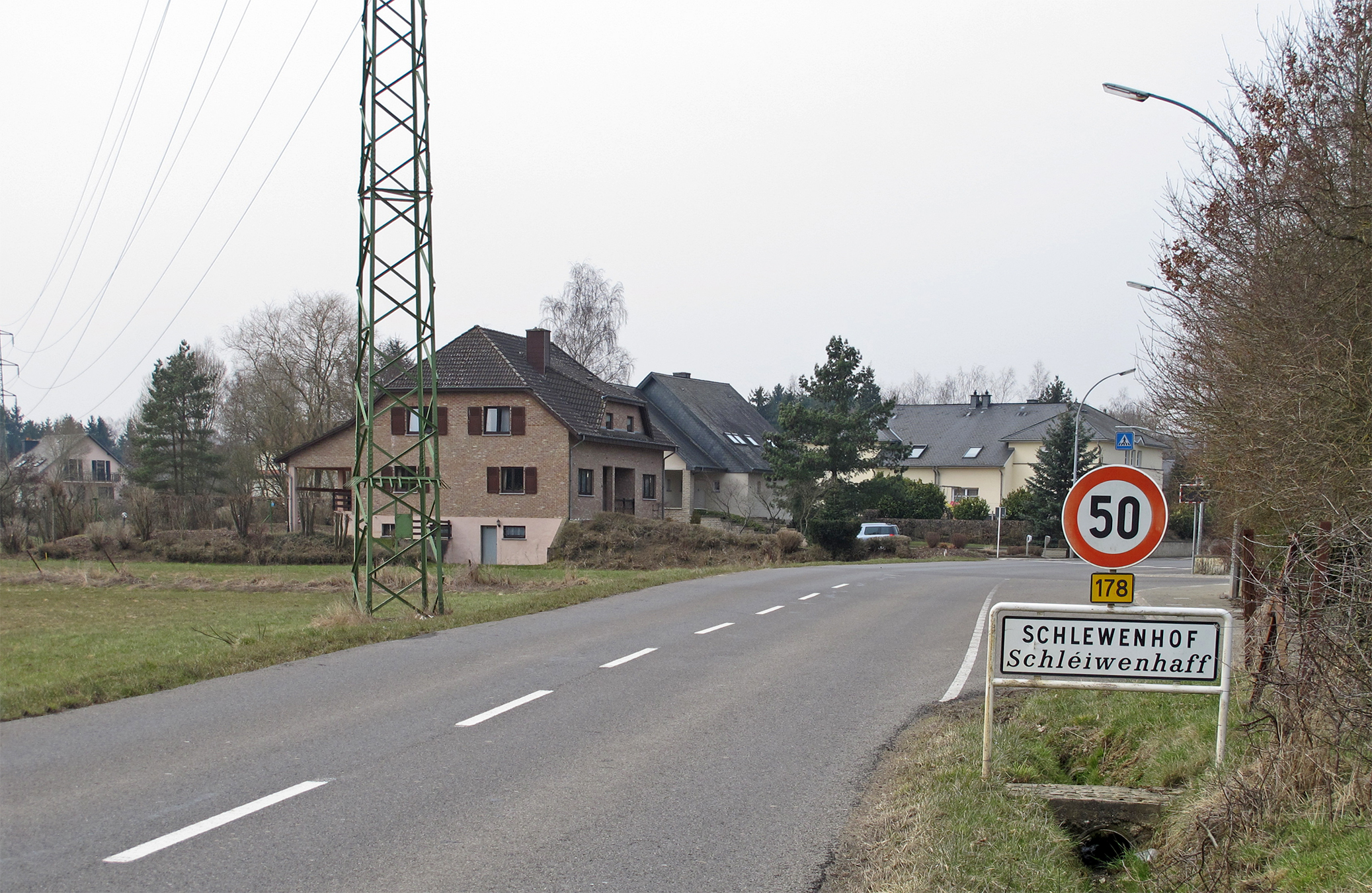 Village boundary of Schlewenhof, Luxembourg